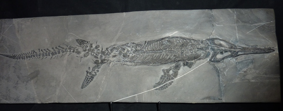 Mixosaurus Ichthyosaur fossil prepared by Fossil Shack